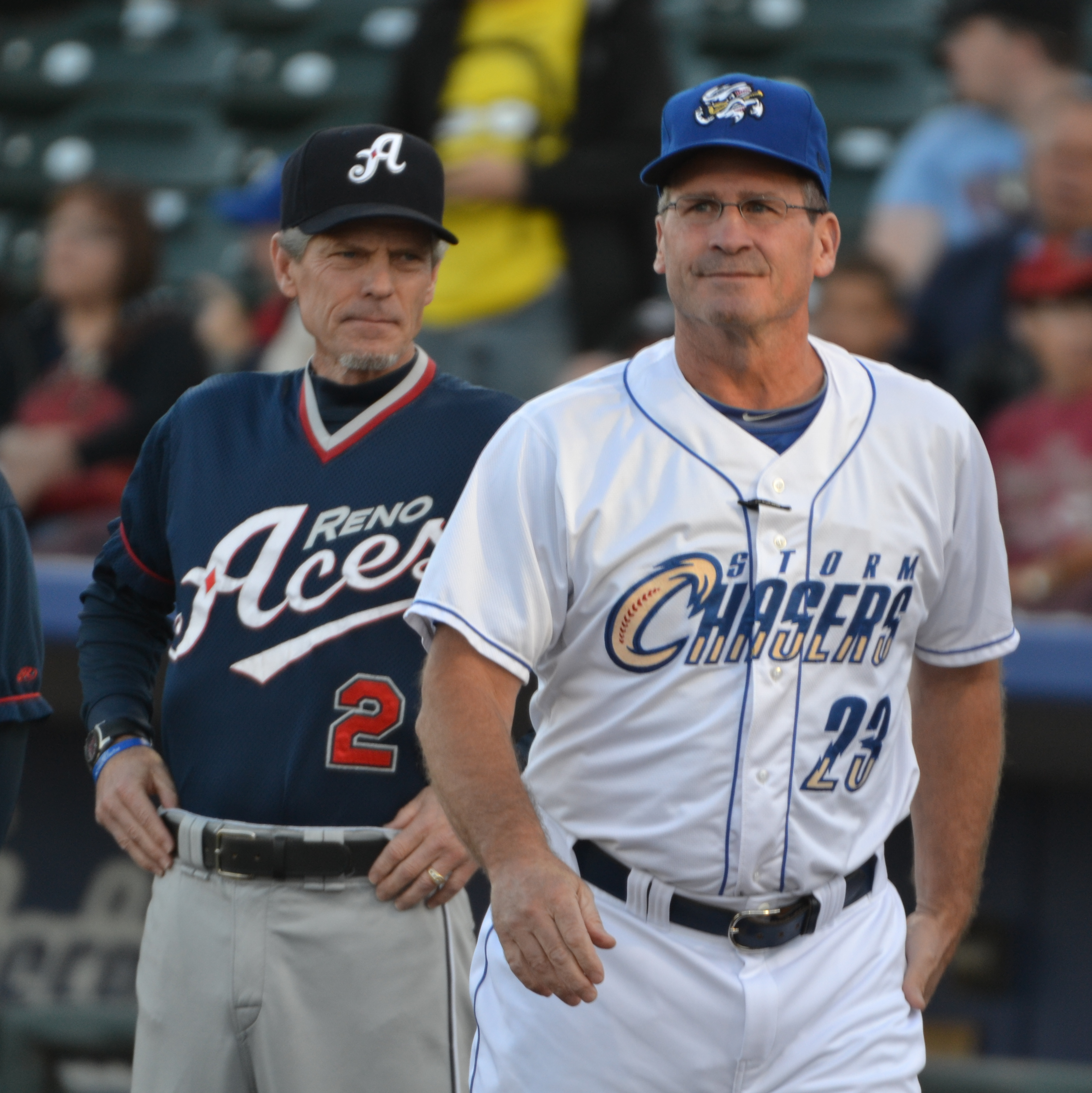 Managers Brett Butler (left) of the Reno Aces and Mike Jirschele (right) of the Omaha Storm Chasers before a 2012 game in Omaha